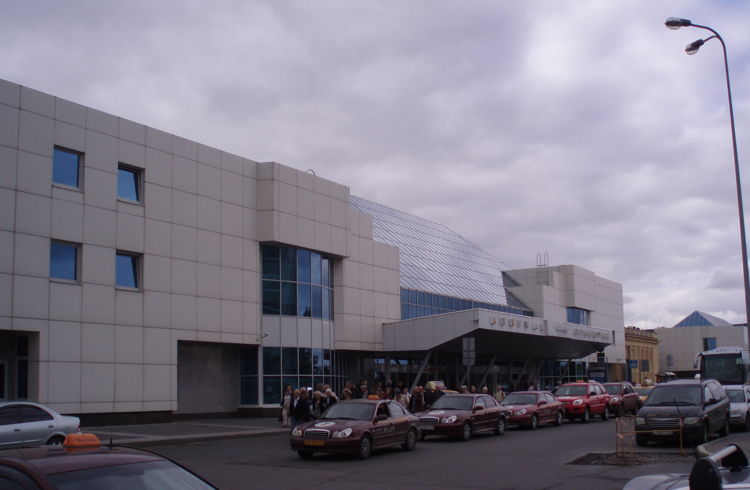 Pulkovo 2 Airport Arrival Terminal